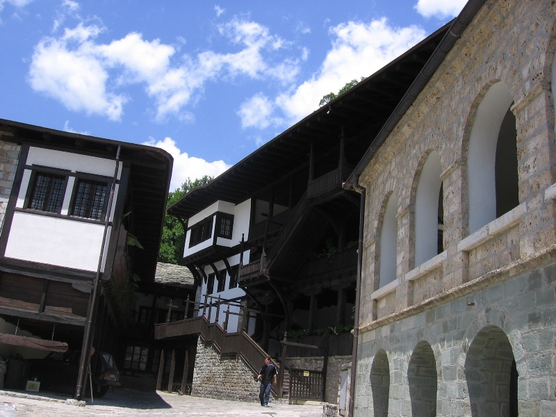 Saint John Bigorski monastery - Republic of Macedonia Author: MatriX in June 2006 Licence: Copyrighted